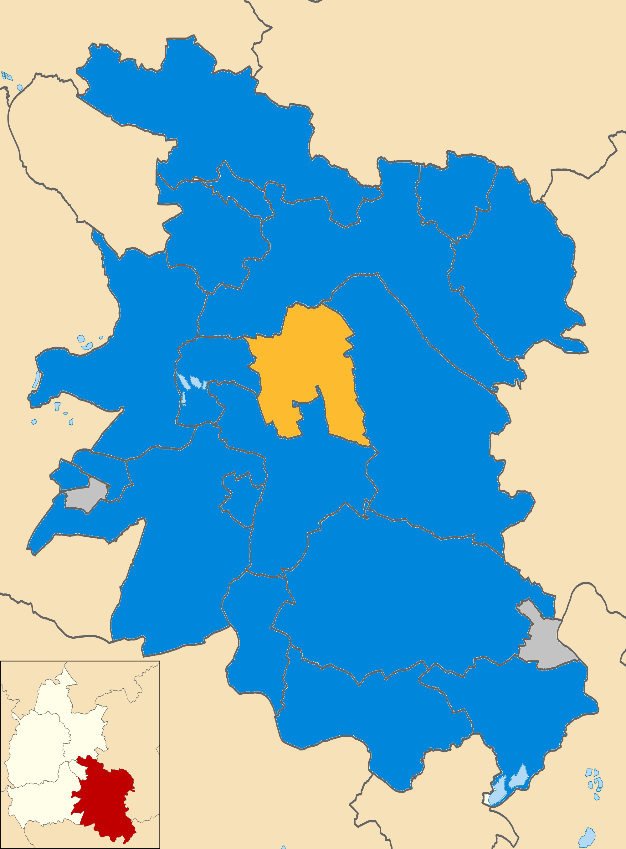 Map of South Oxfordshire, England, showing the results of the 2015 local election. Colours: Conservative Liberal Democrat Wards in grey produced split results. Didcot South ward elected two Conservative councillors and one Labour. Henley-on-Thames ward elected two Conservative councillors and one Henley Residents Group.